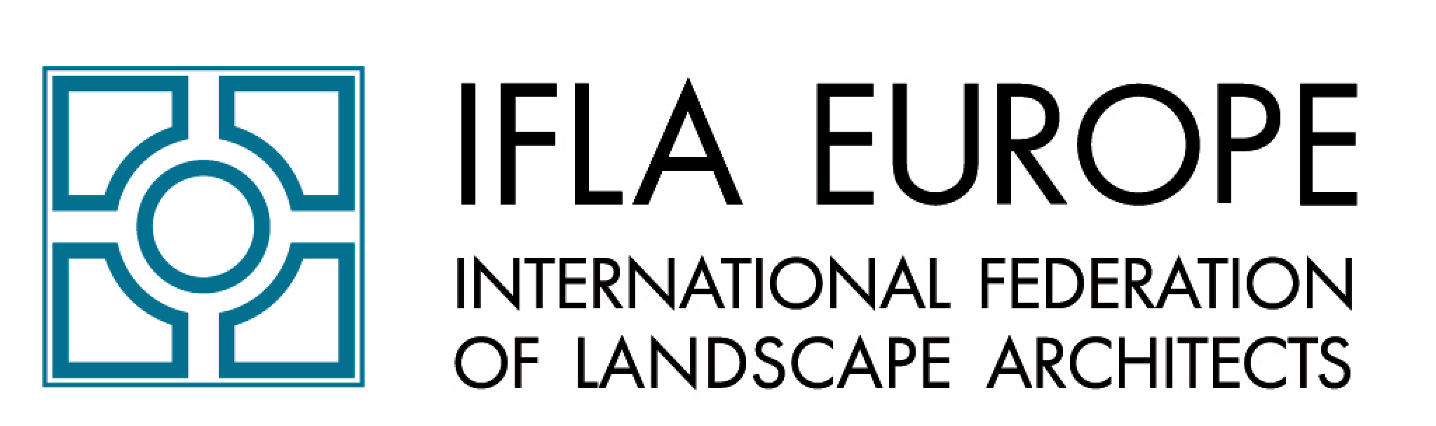 Logo of IFLA Europe